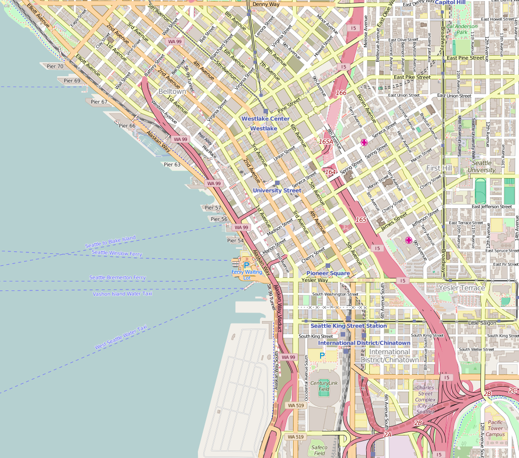 Map of Downtown Seattle, WA. This map of Seattle,_WA_-_Downtown was created from OpenStreetMap project data, collected by the community. This map may be incomplete, and may contain errors. Don't rely solely on it for navigation.